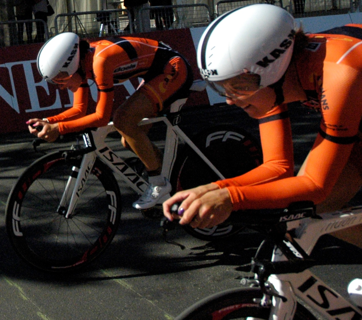 2013 UCI Road World Championships – Women's team time trial